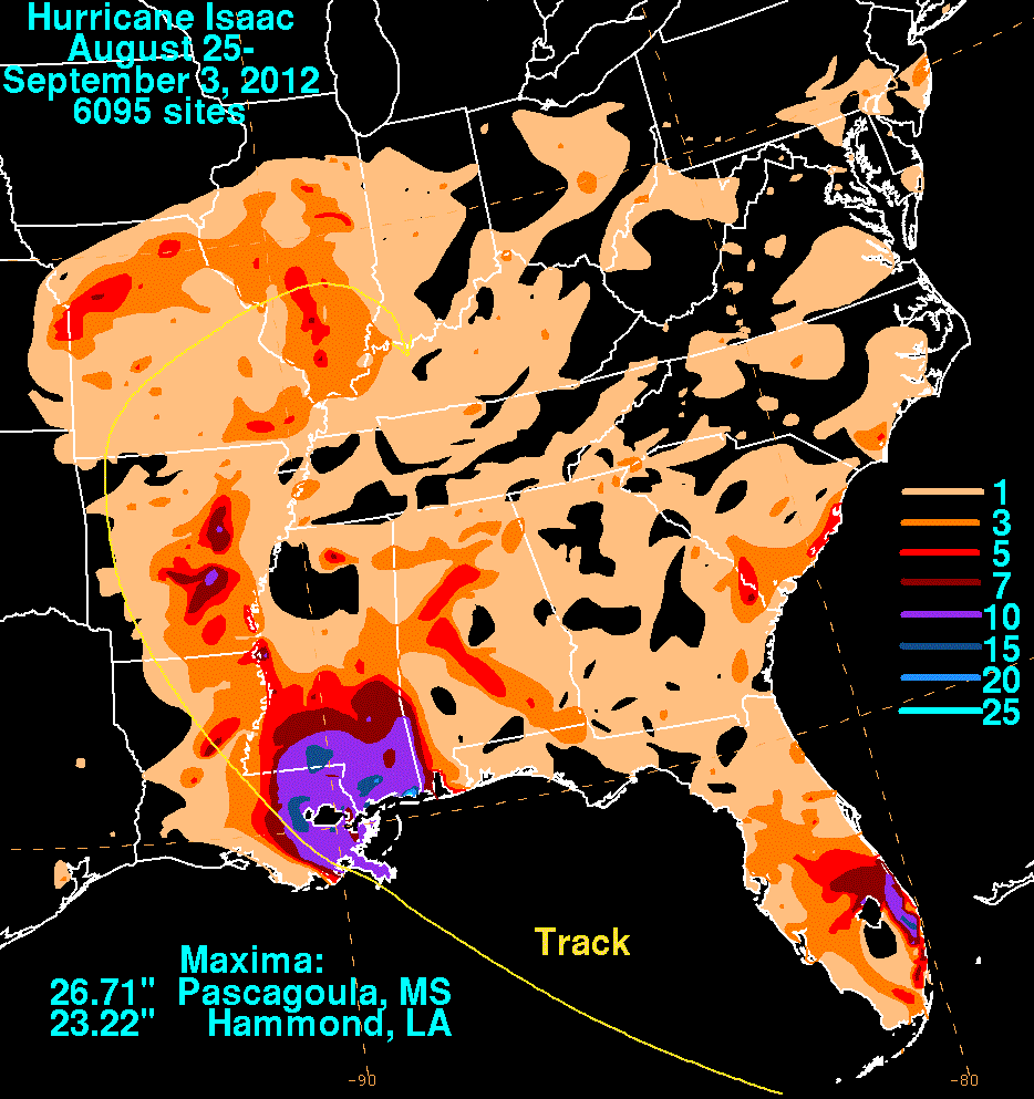 Rainfall produced by Hurricane Isaac during August and September 2012.